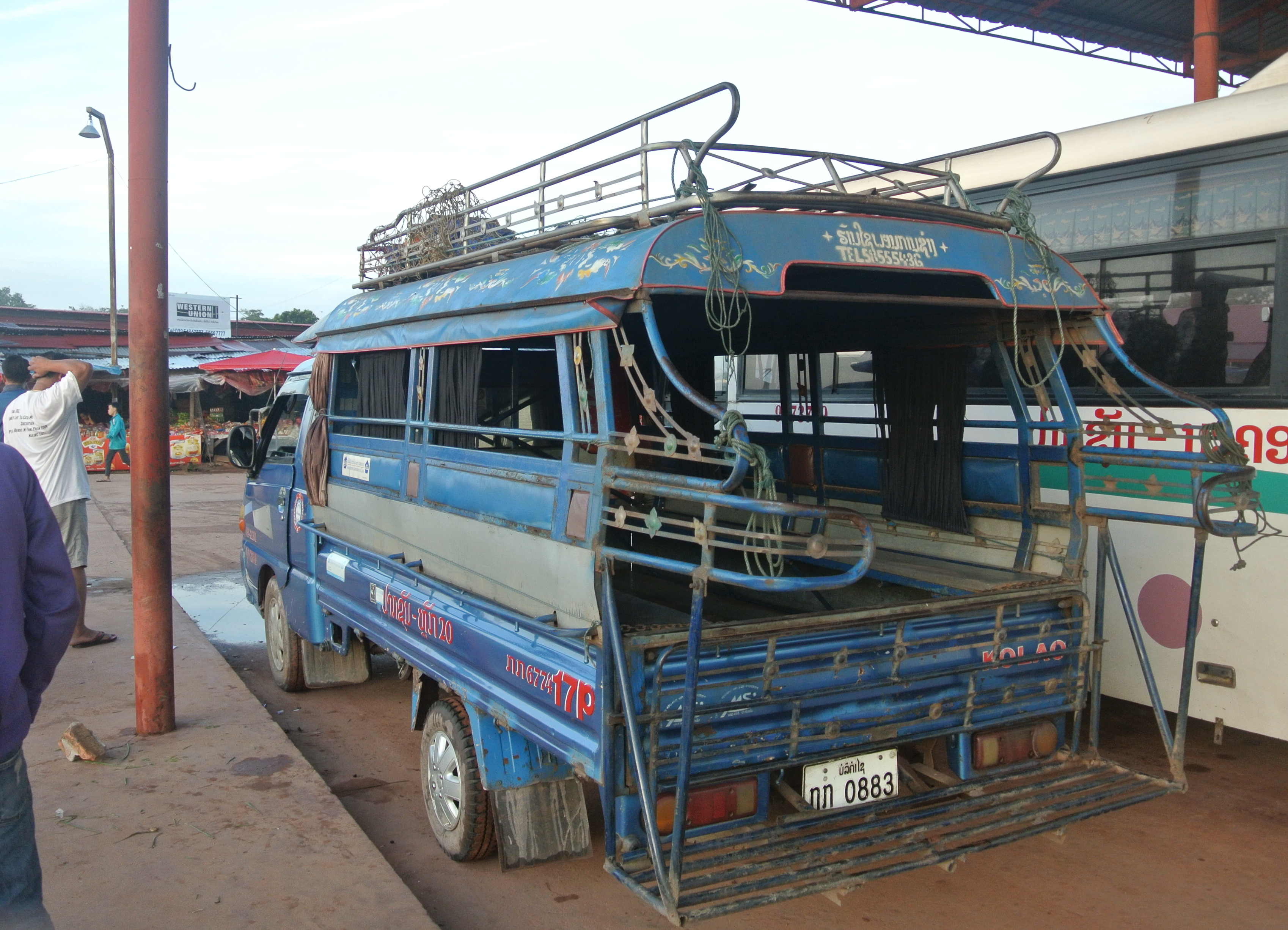 songthaew at Laos which used as bus. in the bus terminal at Paksane district, Bolikhamsai province. it goes to Laksao town with 6hours.